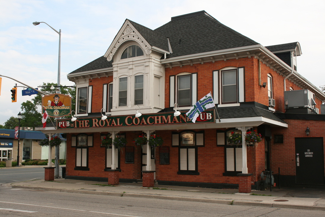 The Flamborough Flag flies over the Royal Coachman in Waterdown, 2011